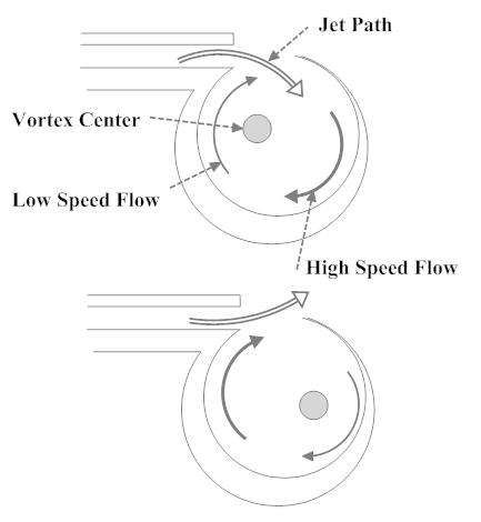 police whistle operation